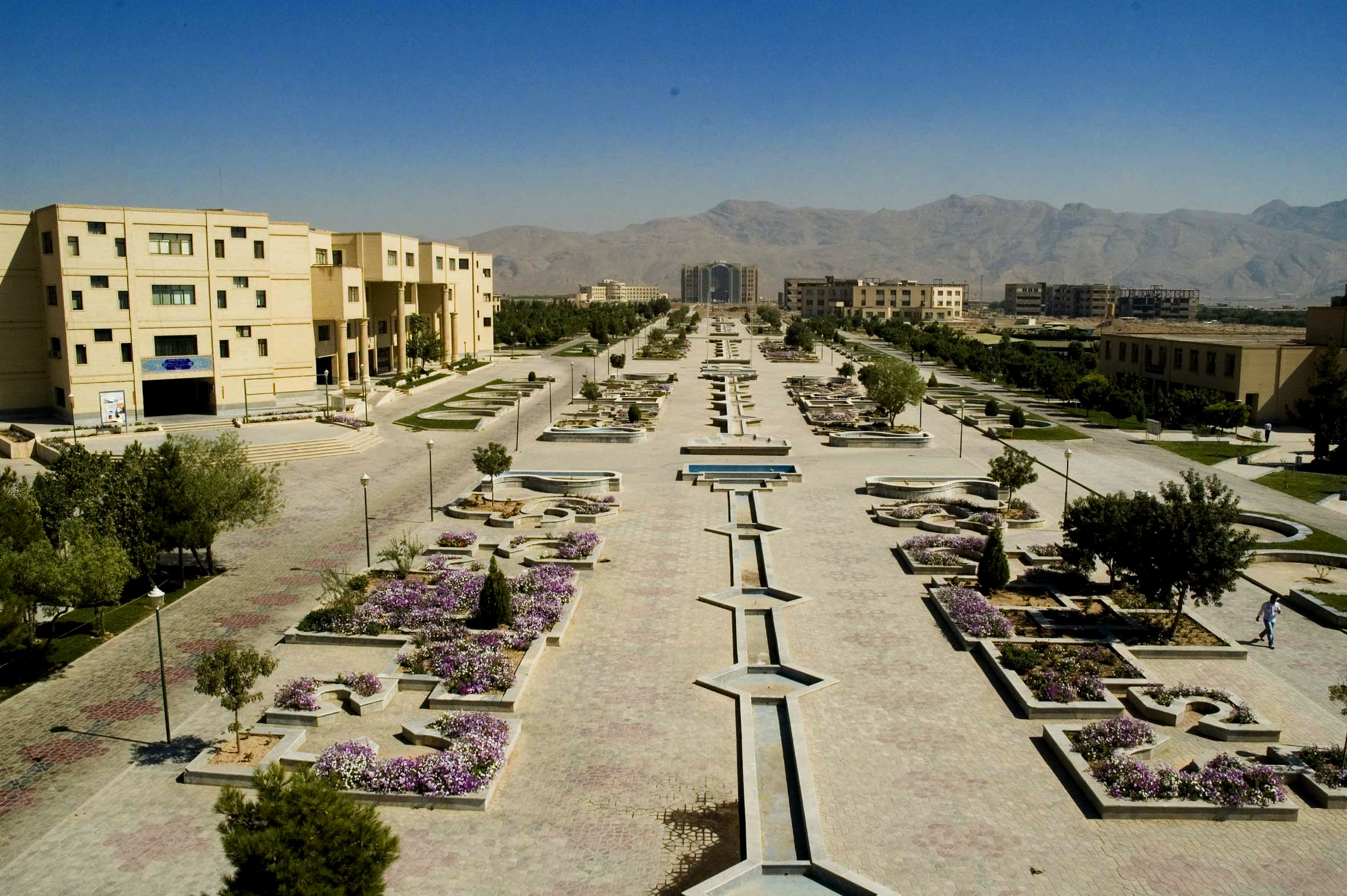 Inside view of Islamic Azad University of Najafabad